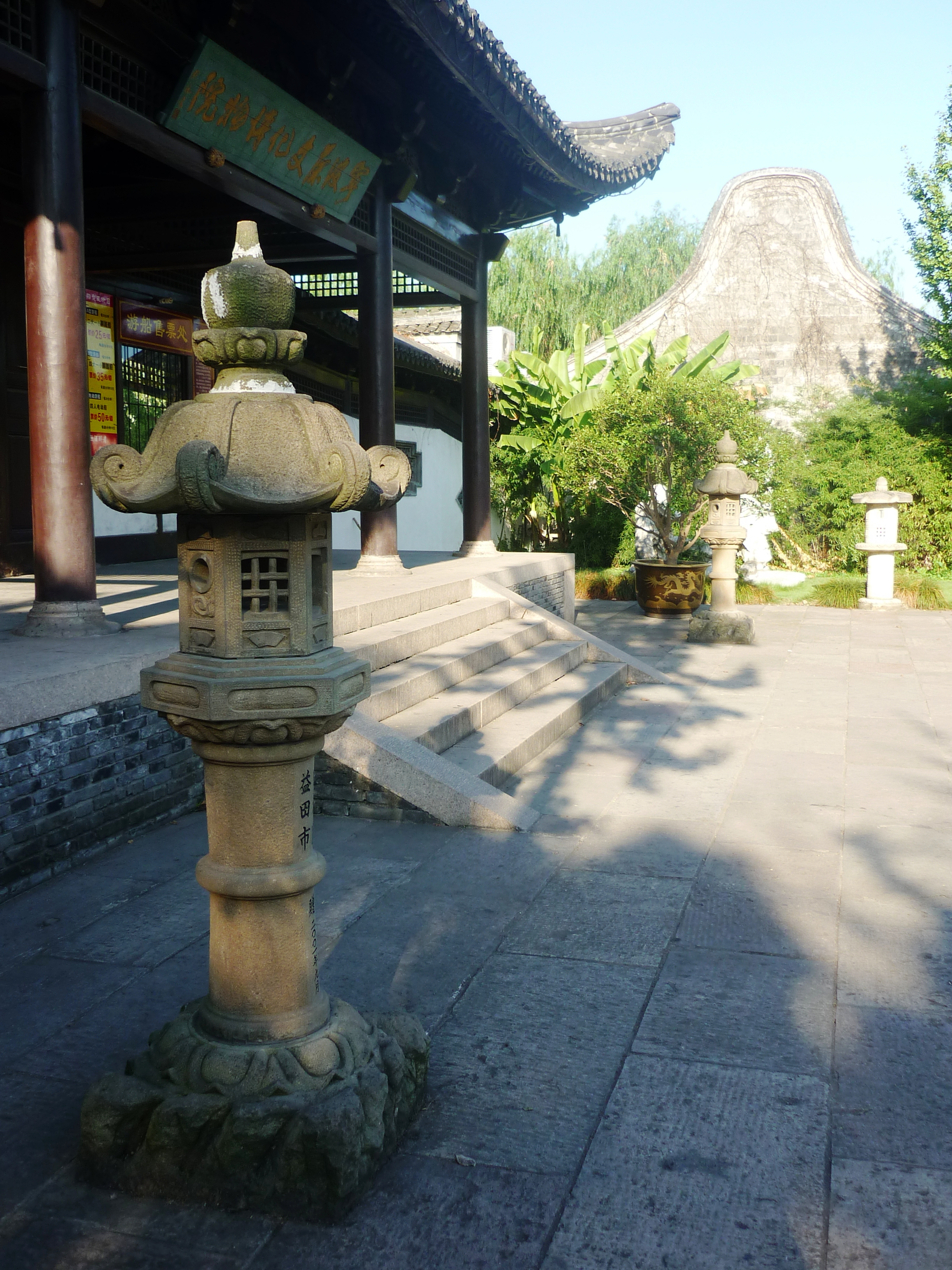 Pagodas sent by Masuda, Japan, now placed in Huxin Temple near Crescent Lake, Ningbo